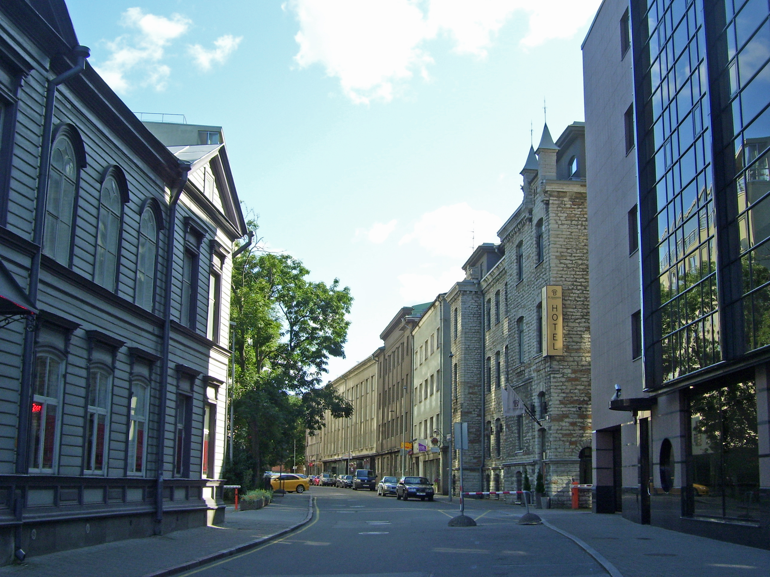 The quarter of Tõnismäe, Tallinn, Estonia. Roosikrantsi street.